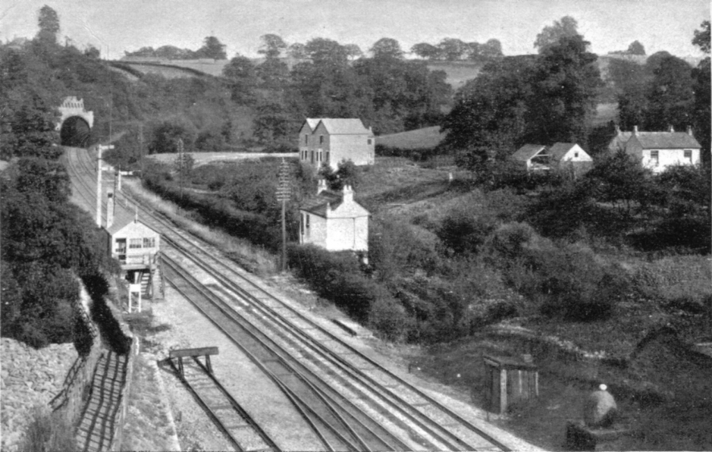 The Great Western Main Line on the eastern outskirts of Bristol circa 1890. The main line has rails for both standard gauge and broad gauge trains; the siding in the foreground has recently been laid is standard gauge only. The boulders on the right were uncovered when digging the cutting for the line; the large one is now on display outside Bristol University. St Anne's park station was opened between the signal bix and tunnel in 1898.